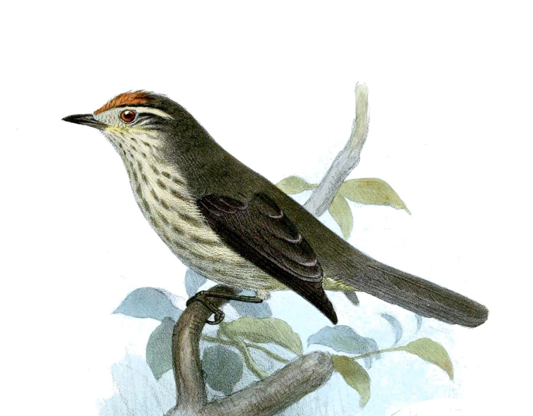 Equatorial Greytail, adult male (above); Grey-mantled Wren, adult male (below)